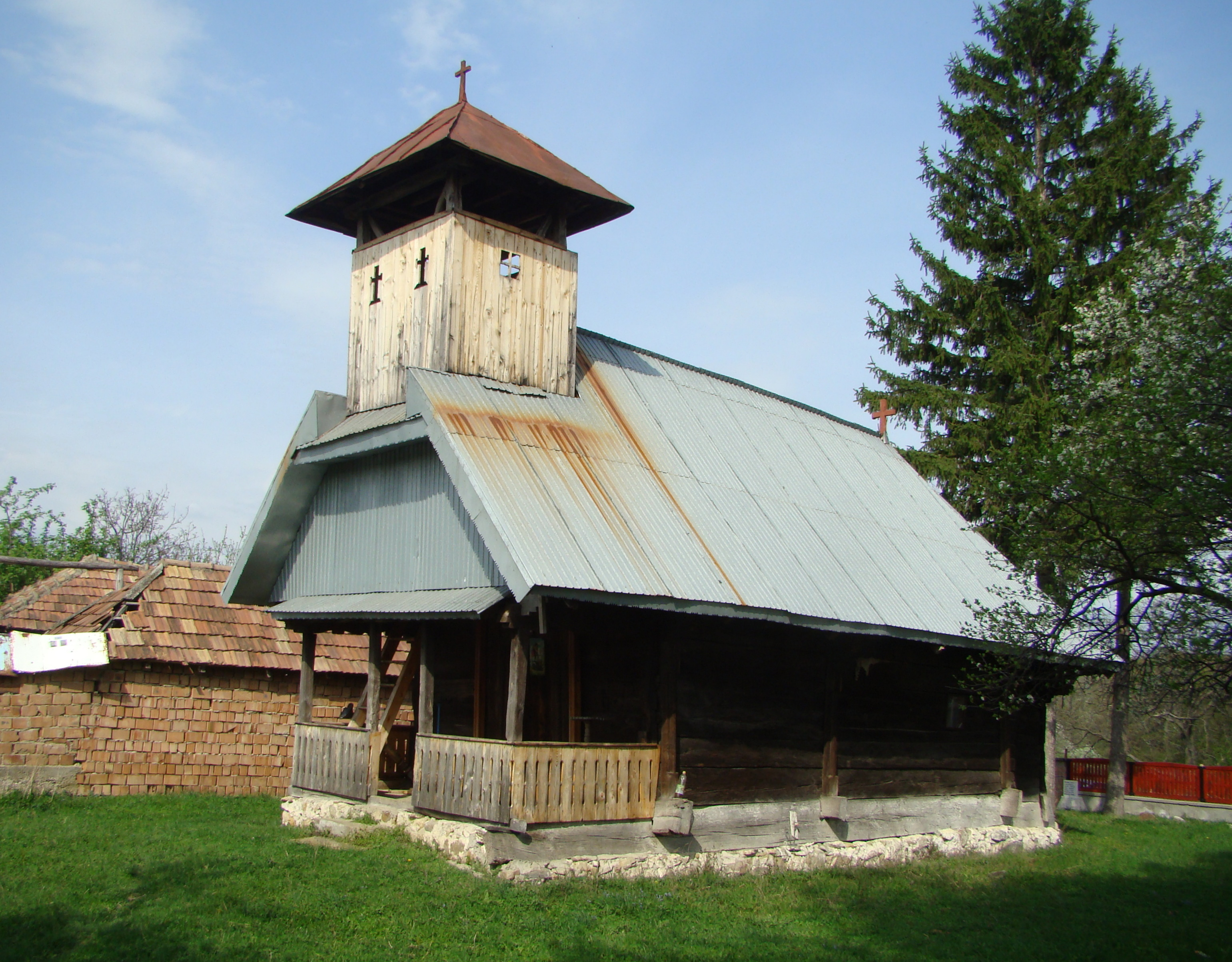 Saint George's wooden church in Voiteștii din Vale, Gorj county, Romania